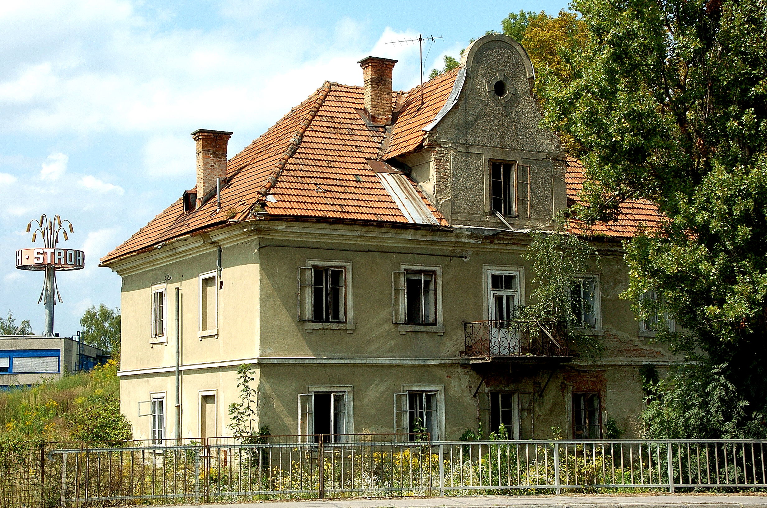 Desolate STROH residential building on Rosentaler Stasse, 13th district “Viktring”, Klagenfurt, Carinthia, Austria, EU